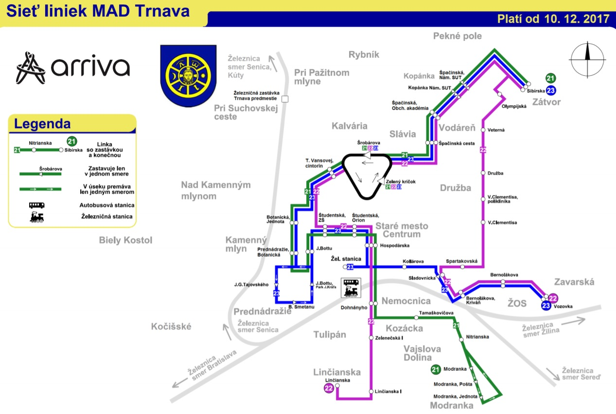 Scheme of school buses 21, 22, 23 of the city bus service in Trnava, Slovakia.